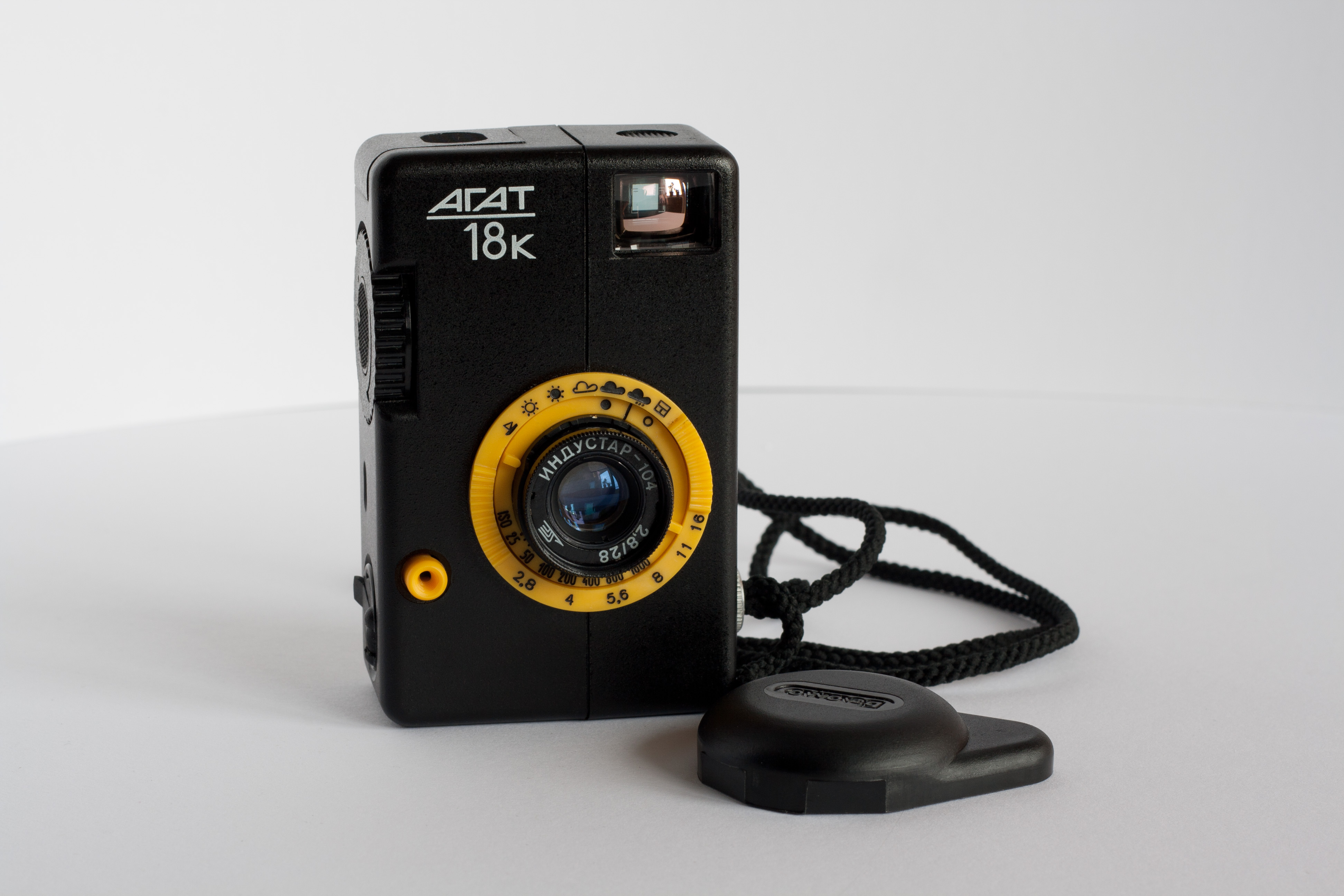 Agat 18k half-frame film camera